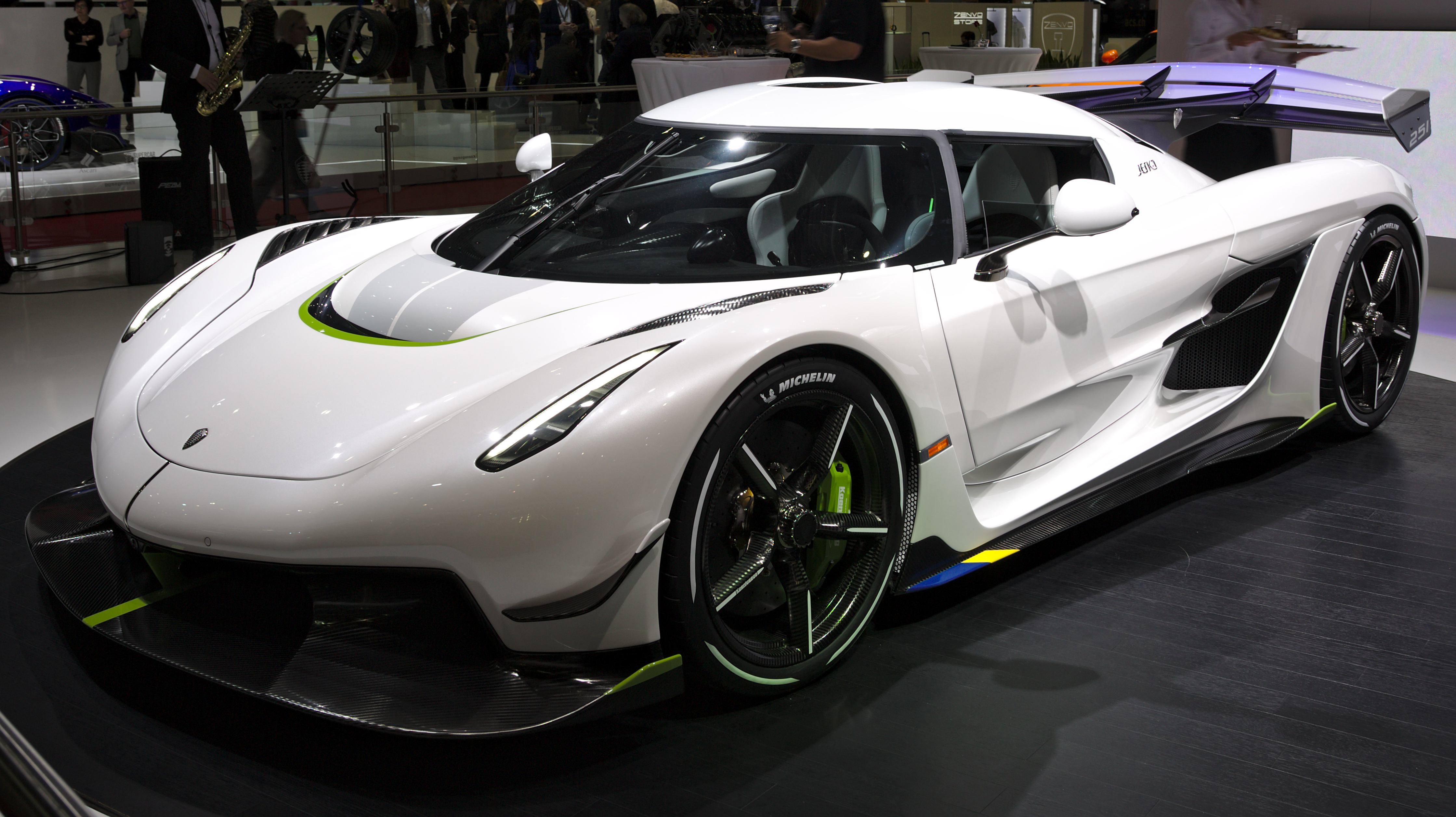 Koenigsegg Jesko at Geneva Motor Show 2019